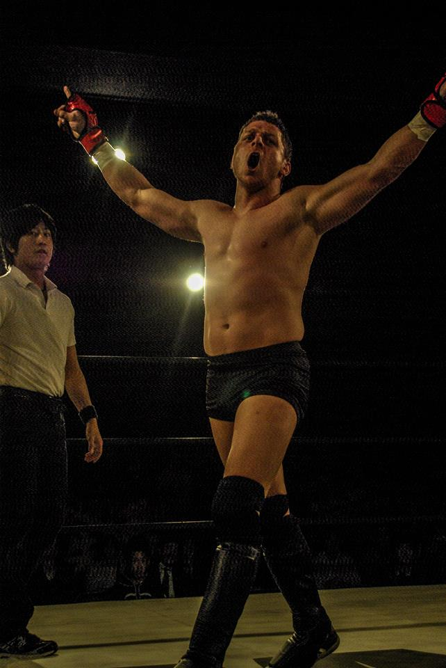 Rionne McAvoy about to hit the top rope